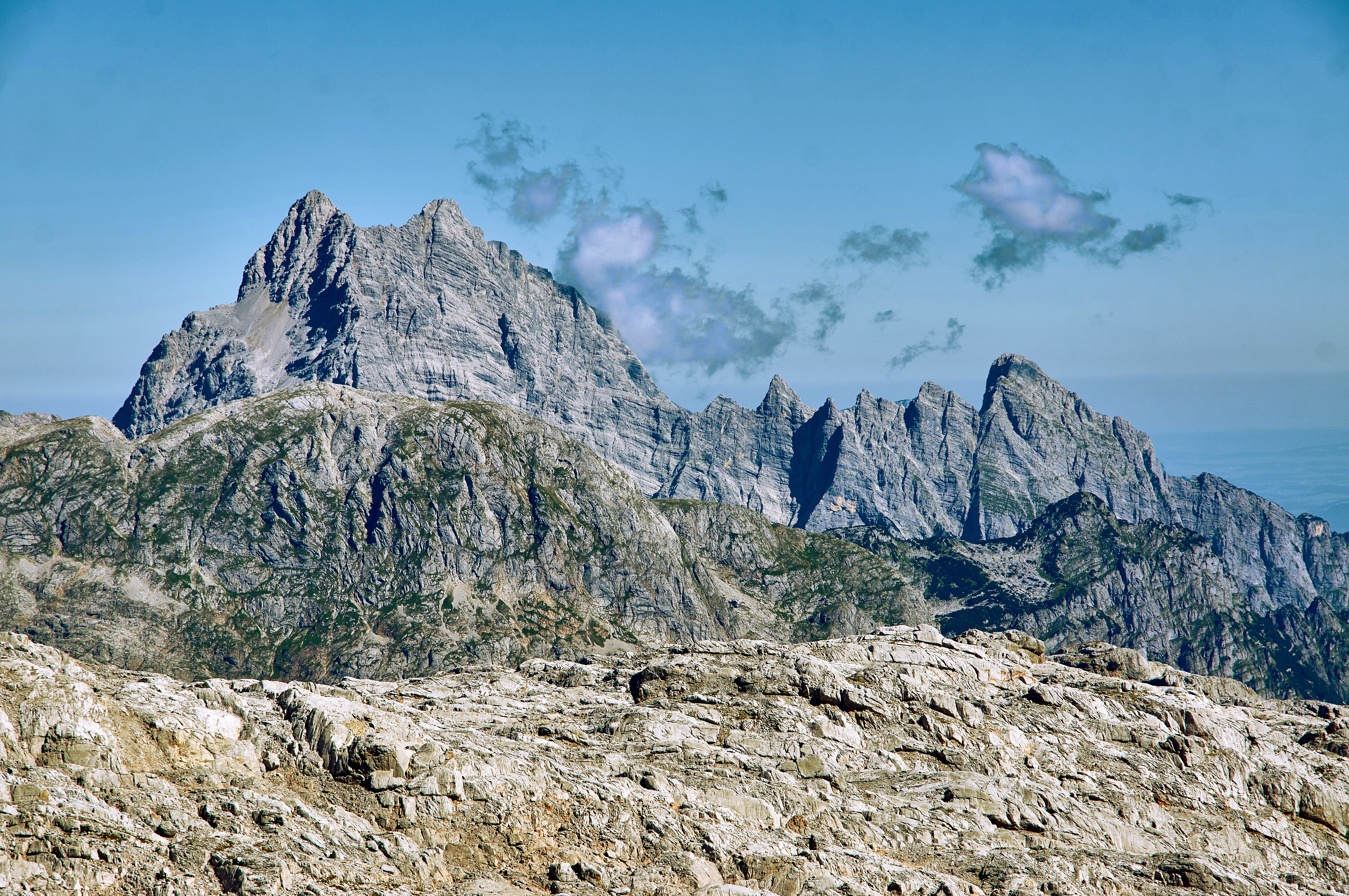 Watzmann, Bavarian Alps, Germany as seen from ascent to Breithorn, Steinernes Meer.